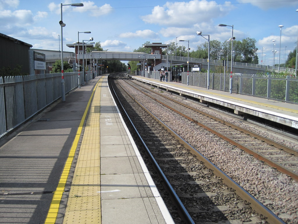 Coleshill Parkway railway station, Warwickshire The original station here was opened in 1842 by the Birmingham and Derby Junction Railway, and closed in 1968. Throughout its life it was known by various combinations of Coleshill and Forge Mills. It was rebuilt and reopened on the same site in 2007, this time known as Coleshill Parkway. View west towards Water Orton and Birmingham.